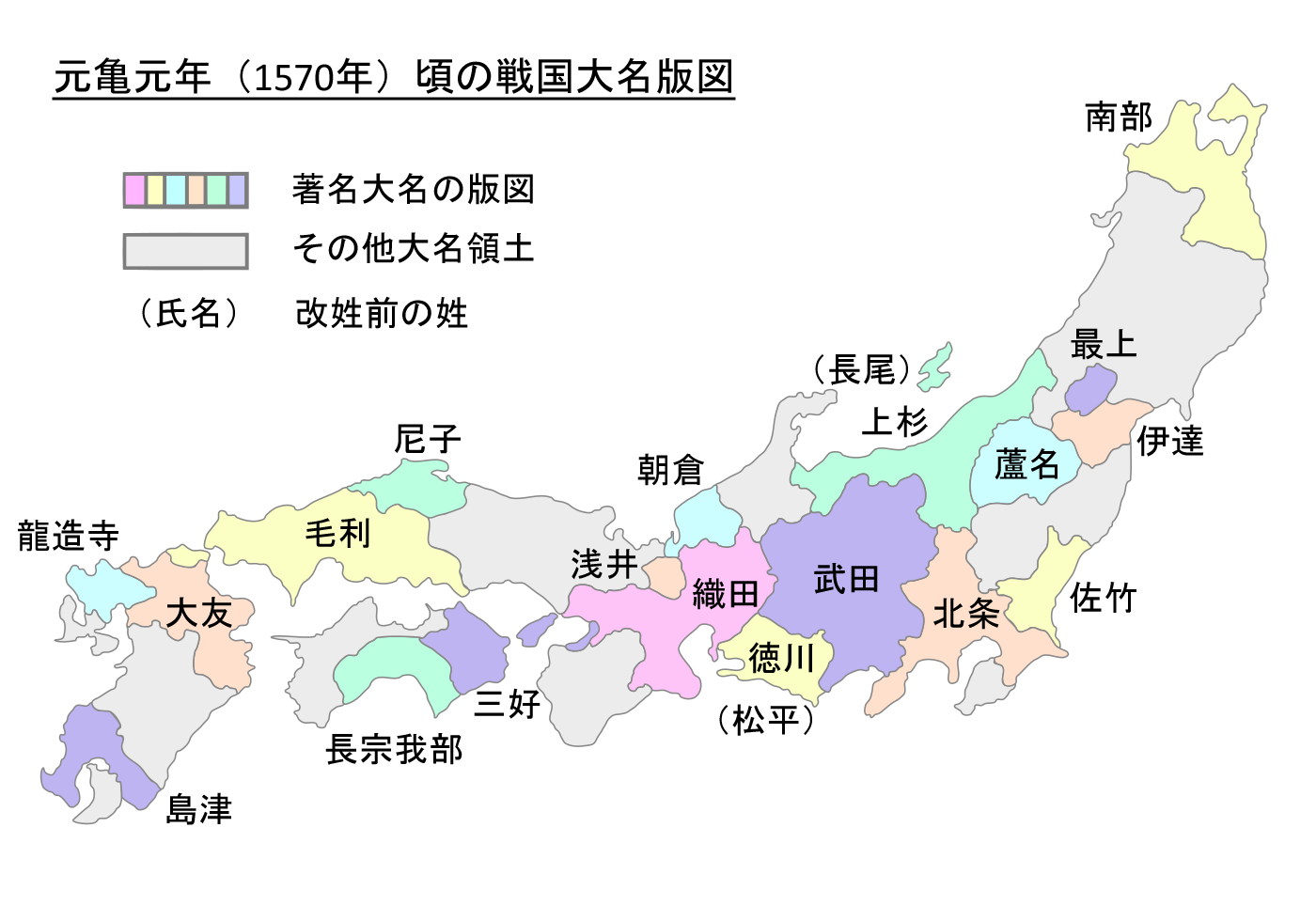 Map of Japan around 1570 (Genki)